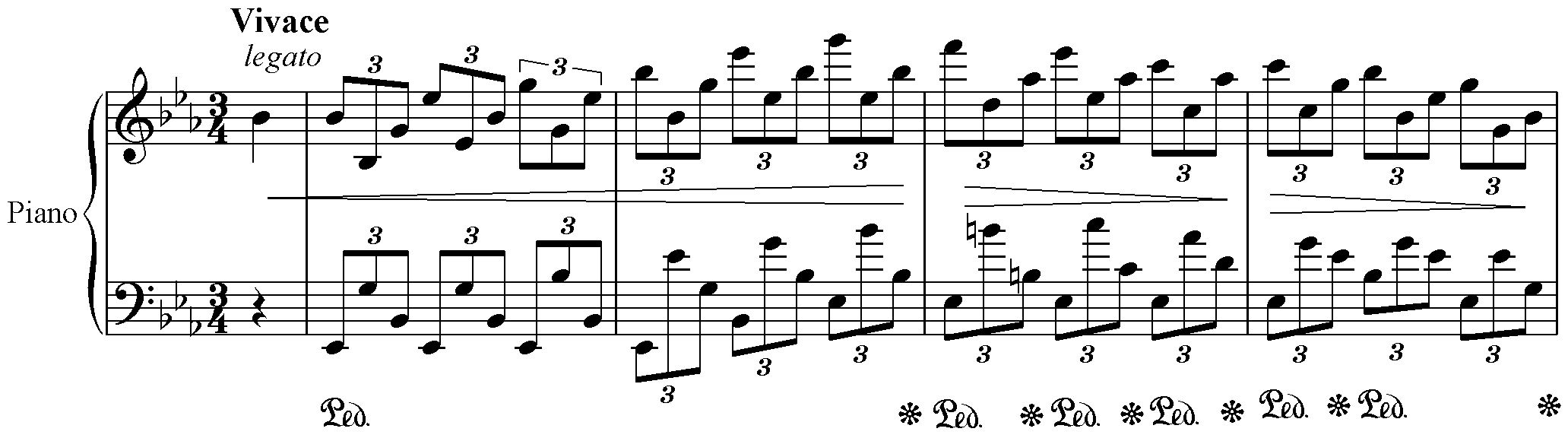 5 first bars of Chopins prelude 19 op. 28